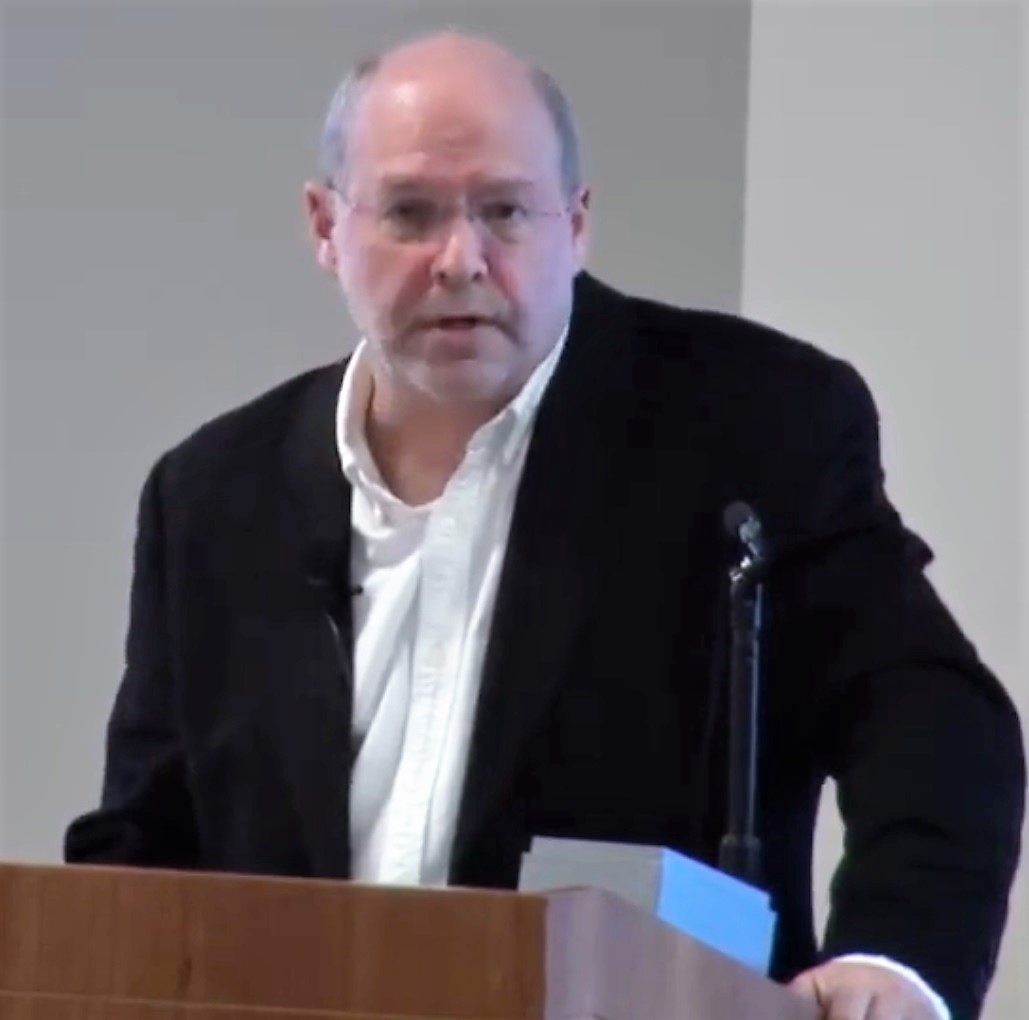 Bill Arkin: How the News Media — and the Public — Contribute to Perpetual War The University of Denver Department of Media, Film & Journalism Studies is please to announce this year's Morton L. Margolin Distinguished Lecturer, Bill Arkin. Join us as we welcome Bill's discussion on "How the News Media — and the Public — Contribute to Perpetual War." William M. Arkin is a columnist for The Guardian and is writing a book on ending the era of perpetual war. He is an award winning journalist and columnist who has had front page bylines in The New York Times, The Washington Post and The Los Angeles Times. As an analyst, reporter and consultant to NBC News from 1999-2019, he was one of the few regular on-air military analysts who was not a retired general or admiral, and as such he brought both a "civilian" perspective to national security. He started his career as an intelligence analyst for the U.S. Army in West Berlin during the Cold War and is author of over a dozen books, including the best sellers Top Secret America and Nuclear Battlefields. He has worked for Human Rights Watch, the Natural Resources Defense Council, and Greenpeace. He has been a consultant to the U.S. Air Force and pioneered on-the-ground bomb damage and civilian casualties assessments. He has been involved in countless exposes of secret programs and activities of the U.S. government and has been the target – more than once – of government threats and legal action.